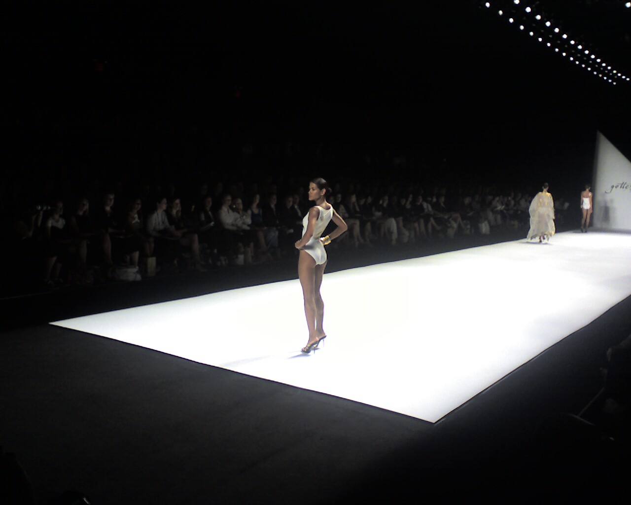 Picture of Fashion Week : Gottex spring 2007, created and owned by author Peter Duhon, found on Flickr under the CC2.0 license. Image can be found here.